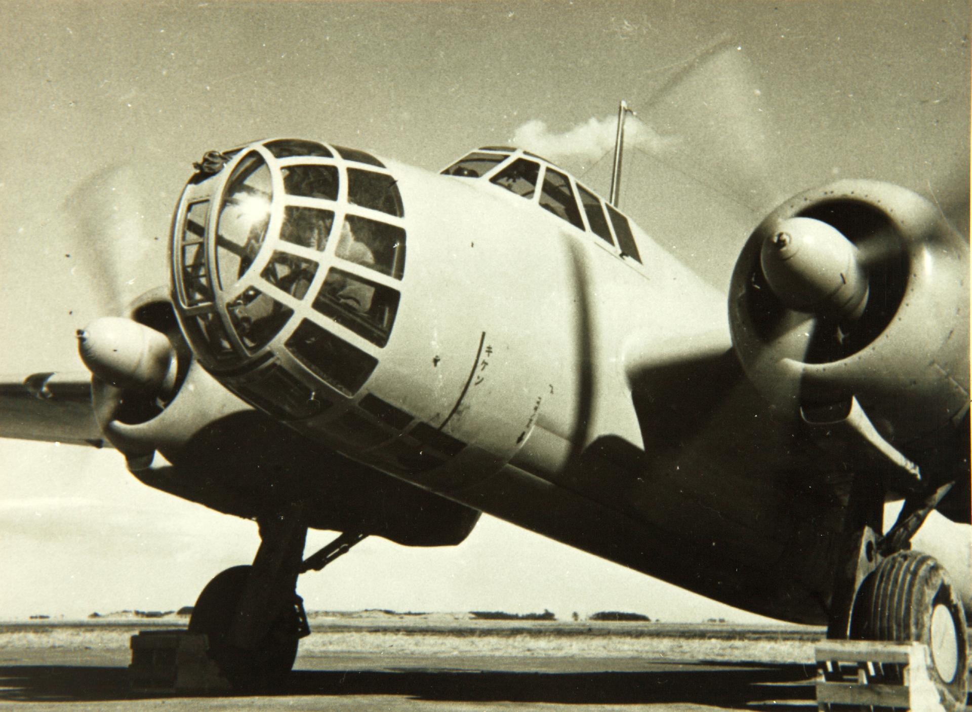 Kawasaki Type98, Ki-48